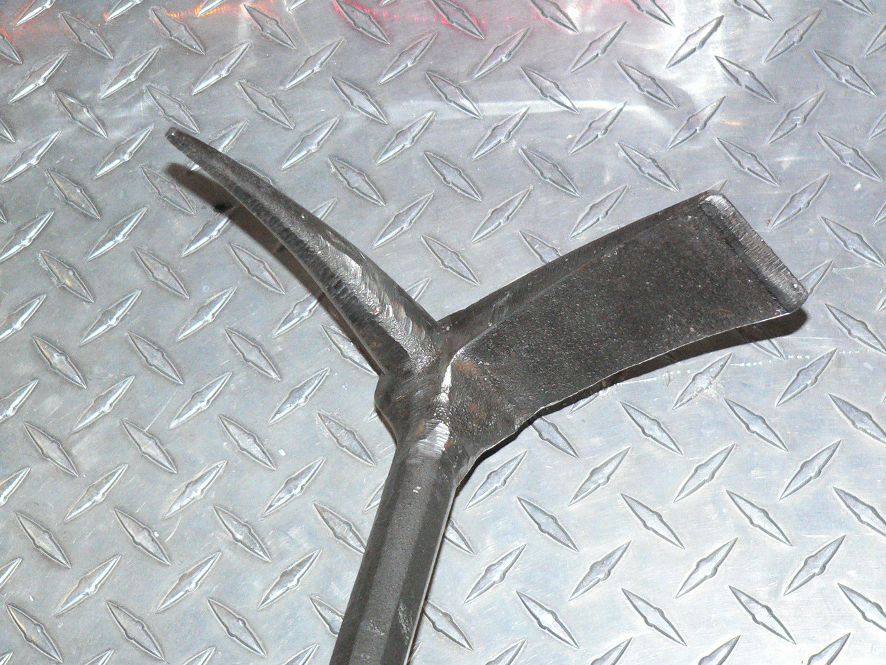 Adz and Pick end of a Halligan Tool. Halligan tool was invented by Hugh Halligan a Ret. First Deputy Commissioner of FDNY.